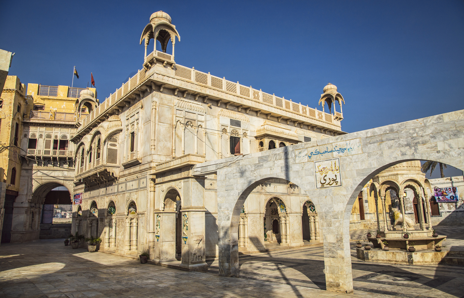 Hindu Temple This is a photo of a monument in Pakistan identified as the SD-U-29